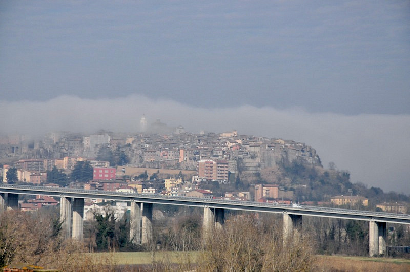 View to the medieval center of Orte in Lazio, Italy from the South (Orte Scalo), with the National Street SS656 in the foreground.